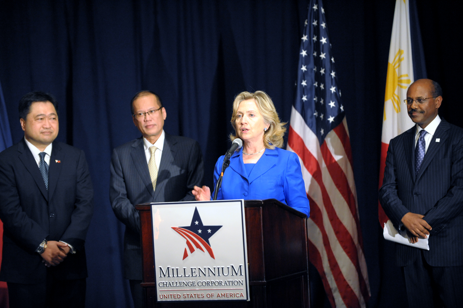 U.S. Secretary of State Hillary Rodham Clinton delivers remarks at a Millennium Challenge Cooperation signing ceremony with Philippine President Aquino at the Waldorf-Astoria in New York, New York, on September 23, 2010.